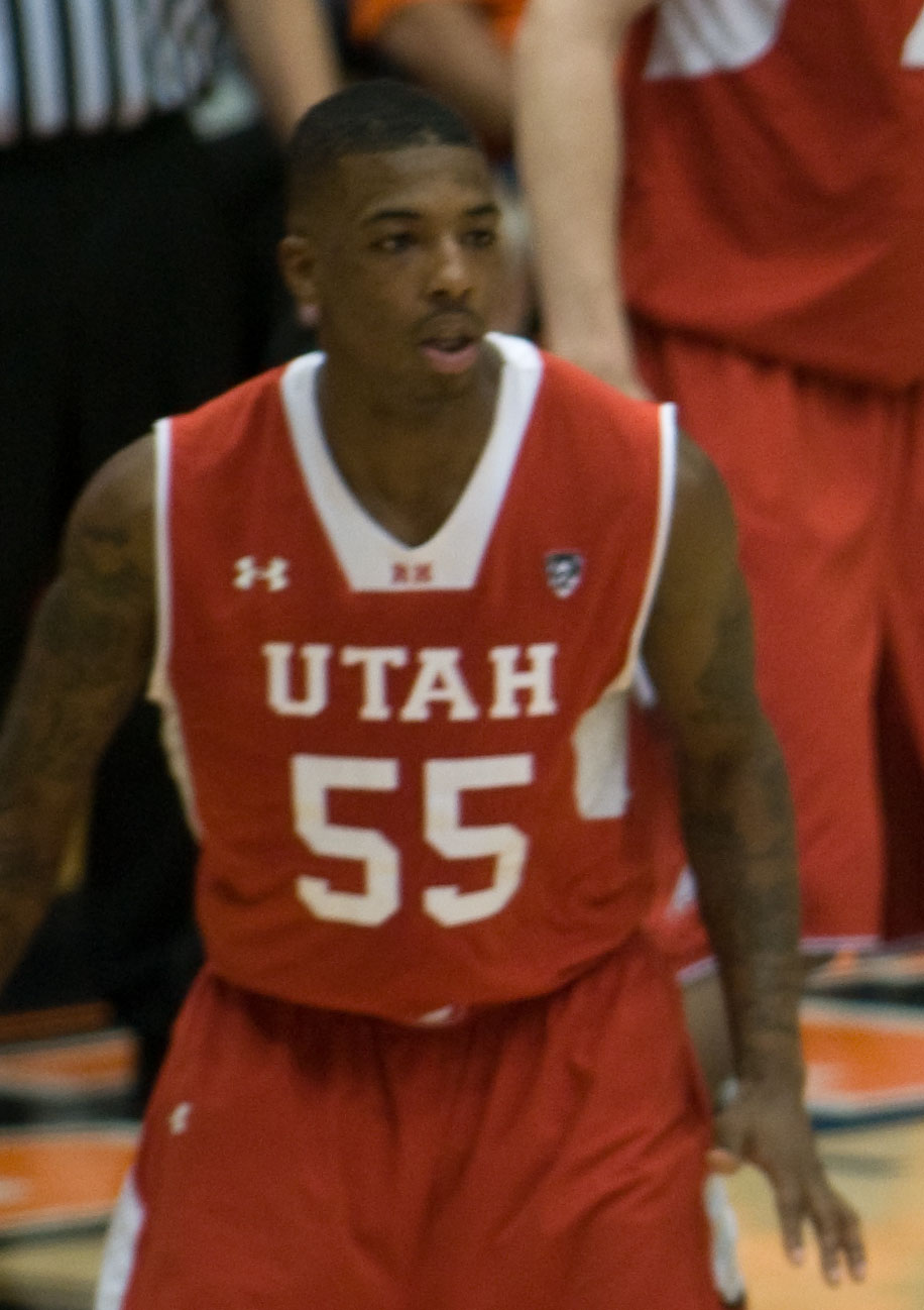 Delon Wright playing for the Utah Utes.